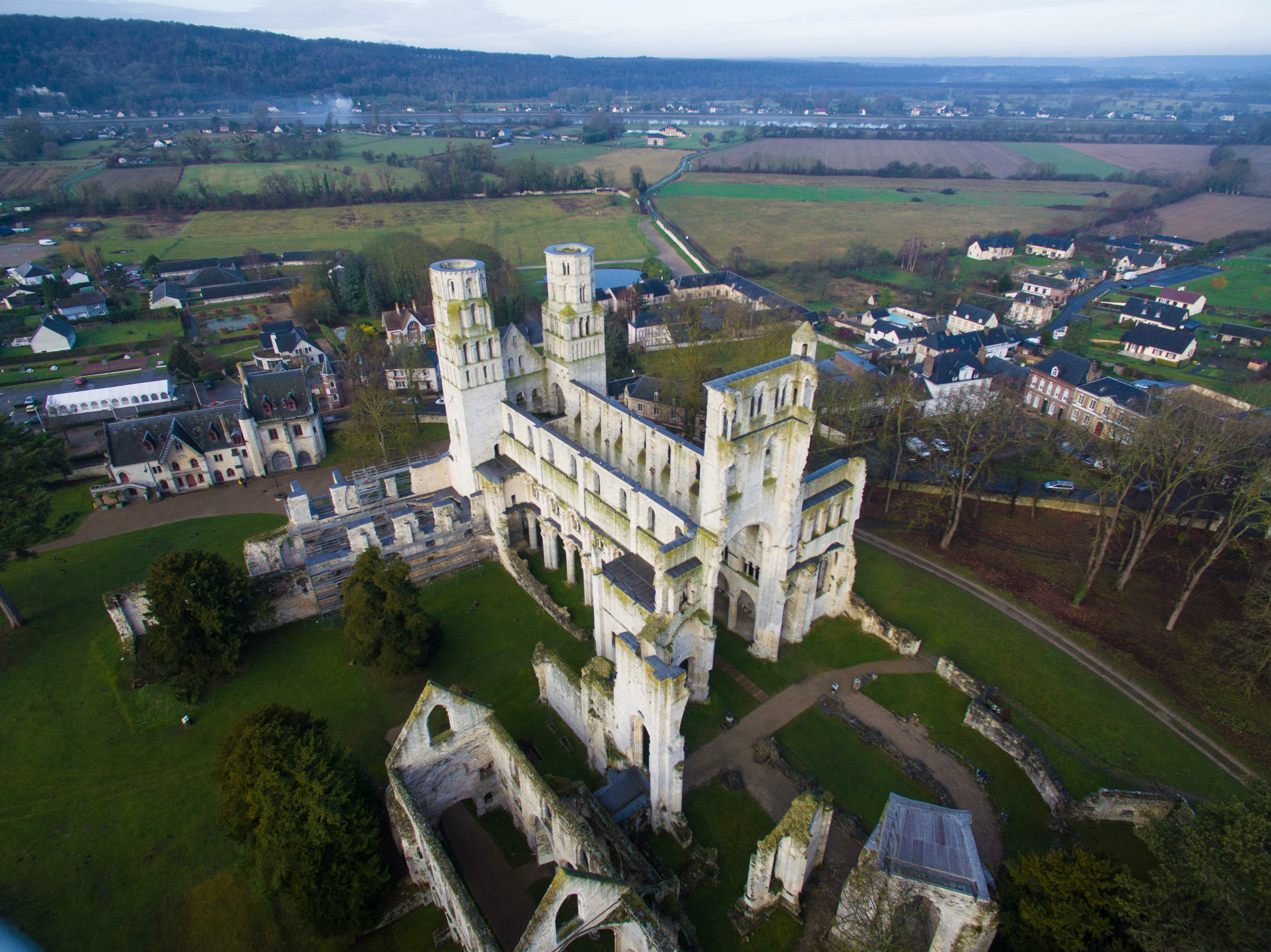 Aerial view of Abbaye de Jumièges ruin by quadcopter